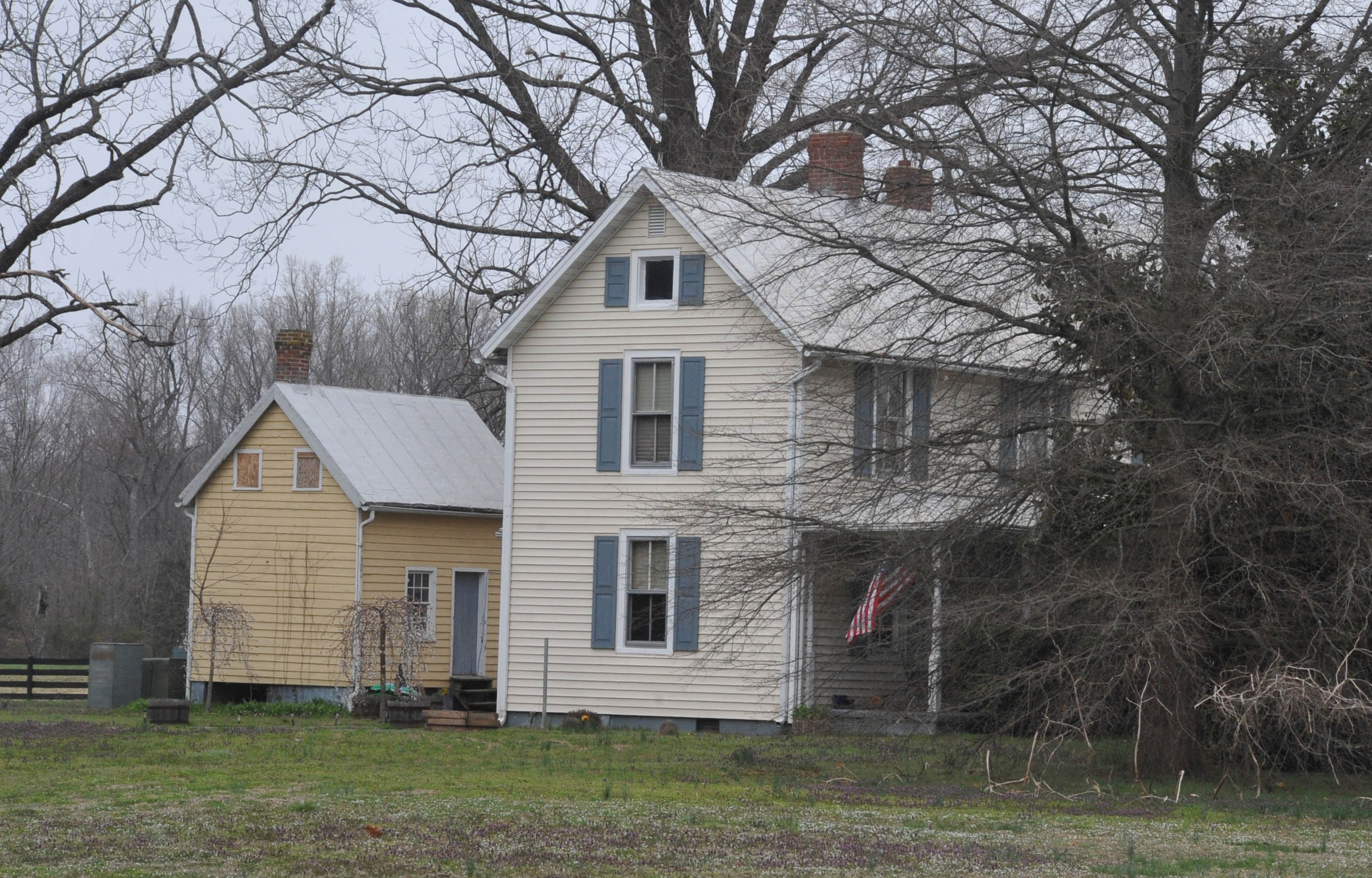 THIS DISTRICT CONSISTS OF 3 CLUSTERS OF FARMHOUSES AND ASSOCIATED OUTBUILDINGS. THIS FARMHOUSE IS LOCATED IN POWHATTAN ROAD NEAR VIRGINIA 607